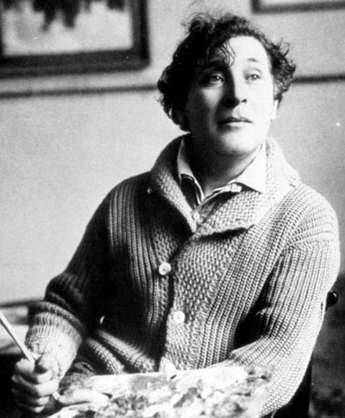 Photo taken in Paris, 1921